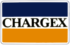 1958–1976 Chargex card, now Visa